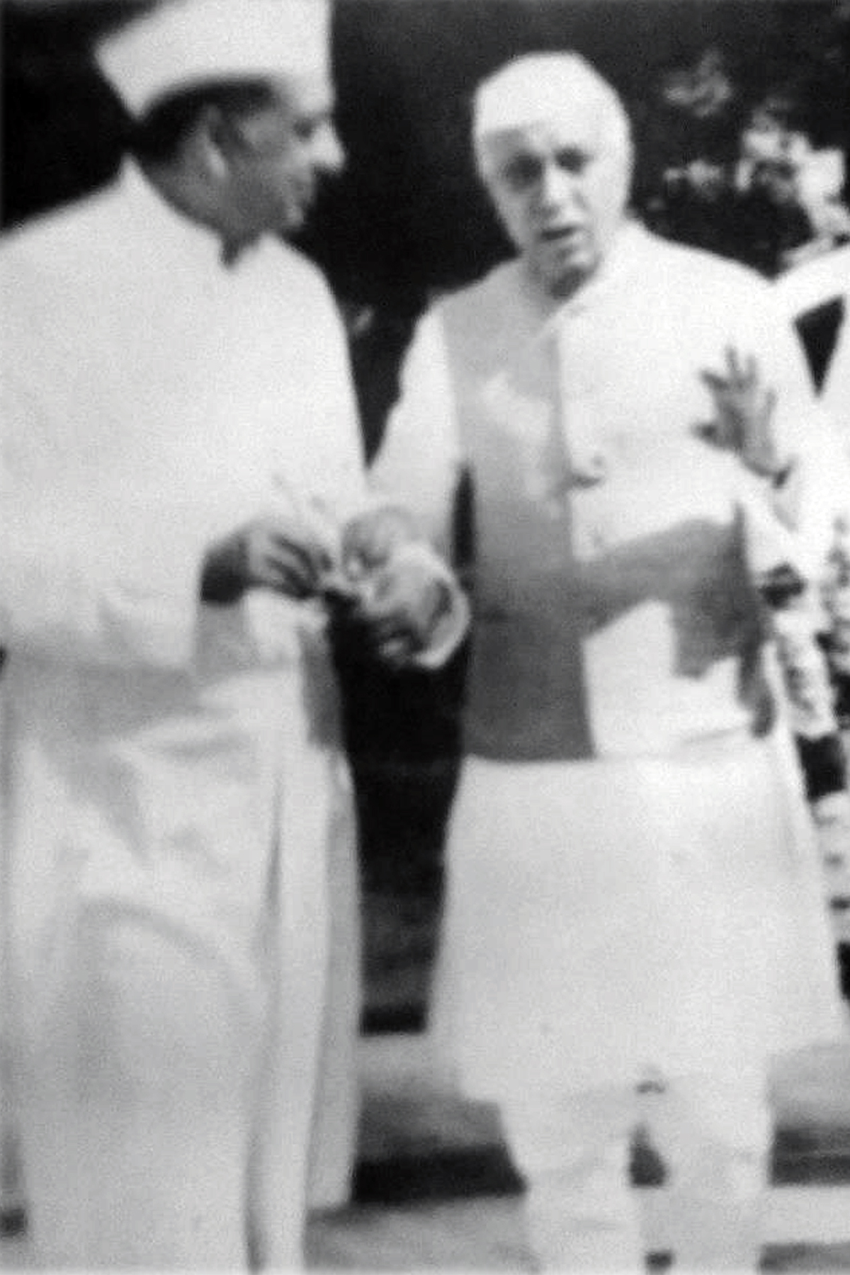 Raja Bajrang Bahadur Singh of Bhadri (1905-1970)